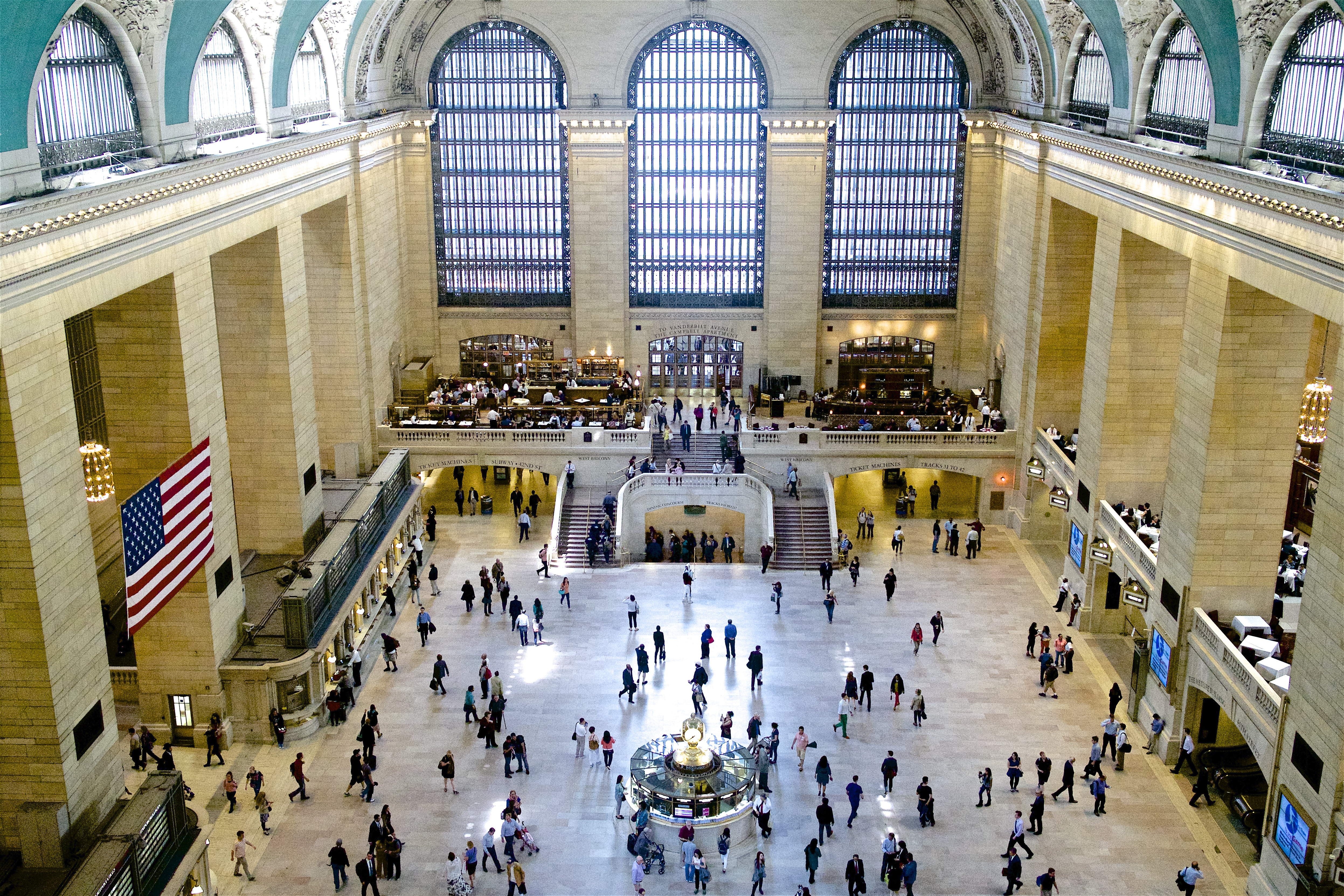 The Main Concourse of Grand Central Terminal, as seen on a weekday afternoon, May 2014.